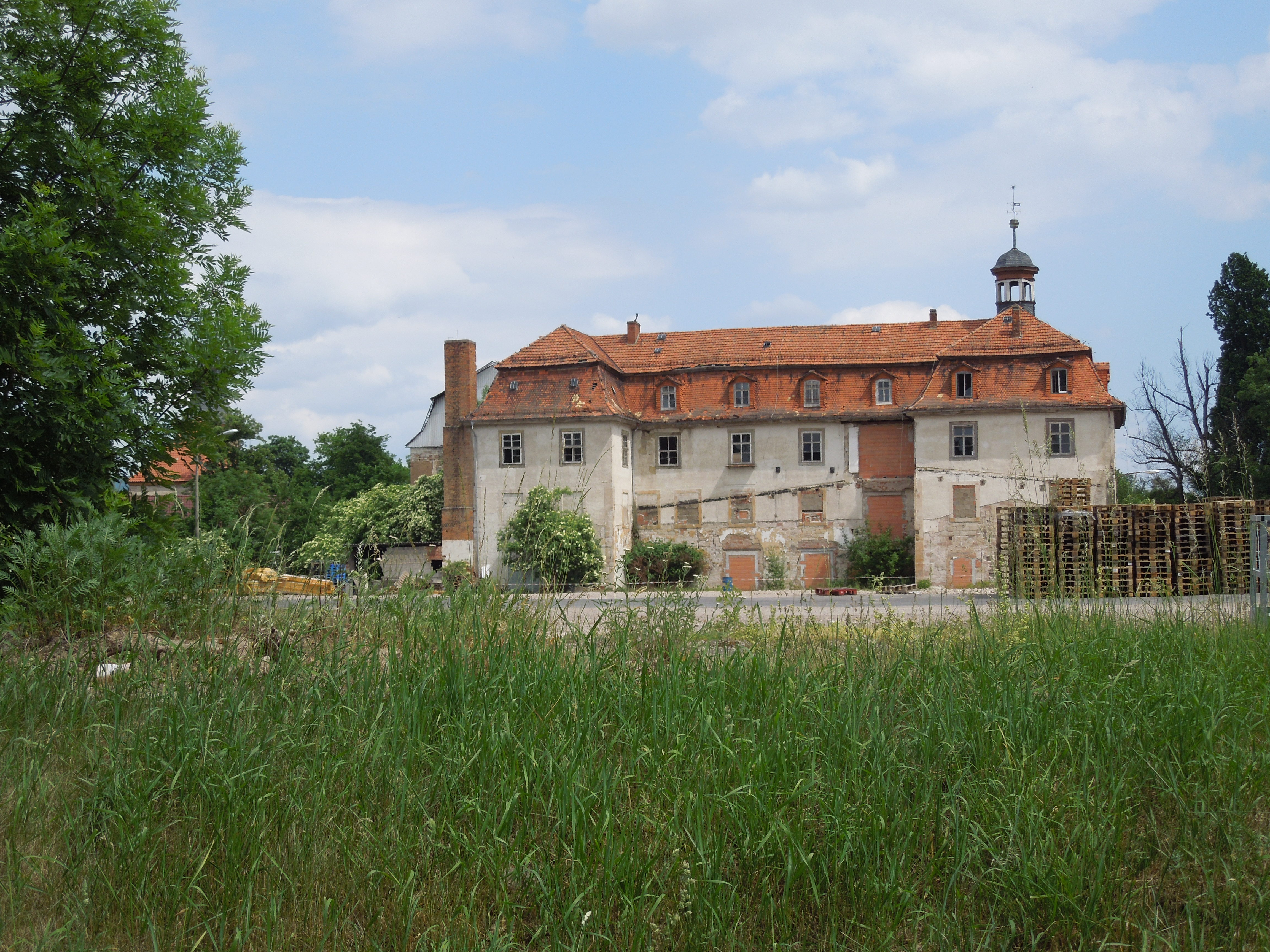 Wilhelmsburg Castle in Barchfeld, Westfront